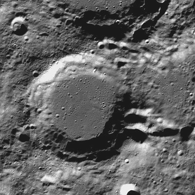 Cusanus lunar crater - LROC image